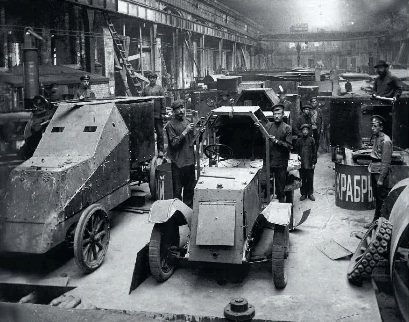 Kolpino (Russia), Izhorsky Zavod workers armour-plating cars.